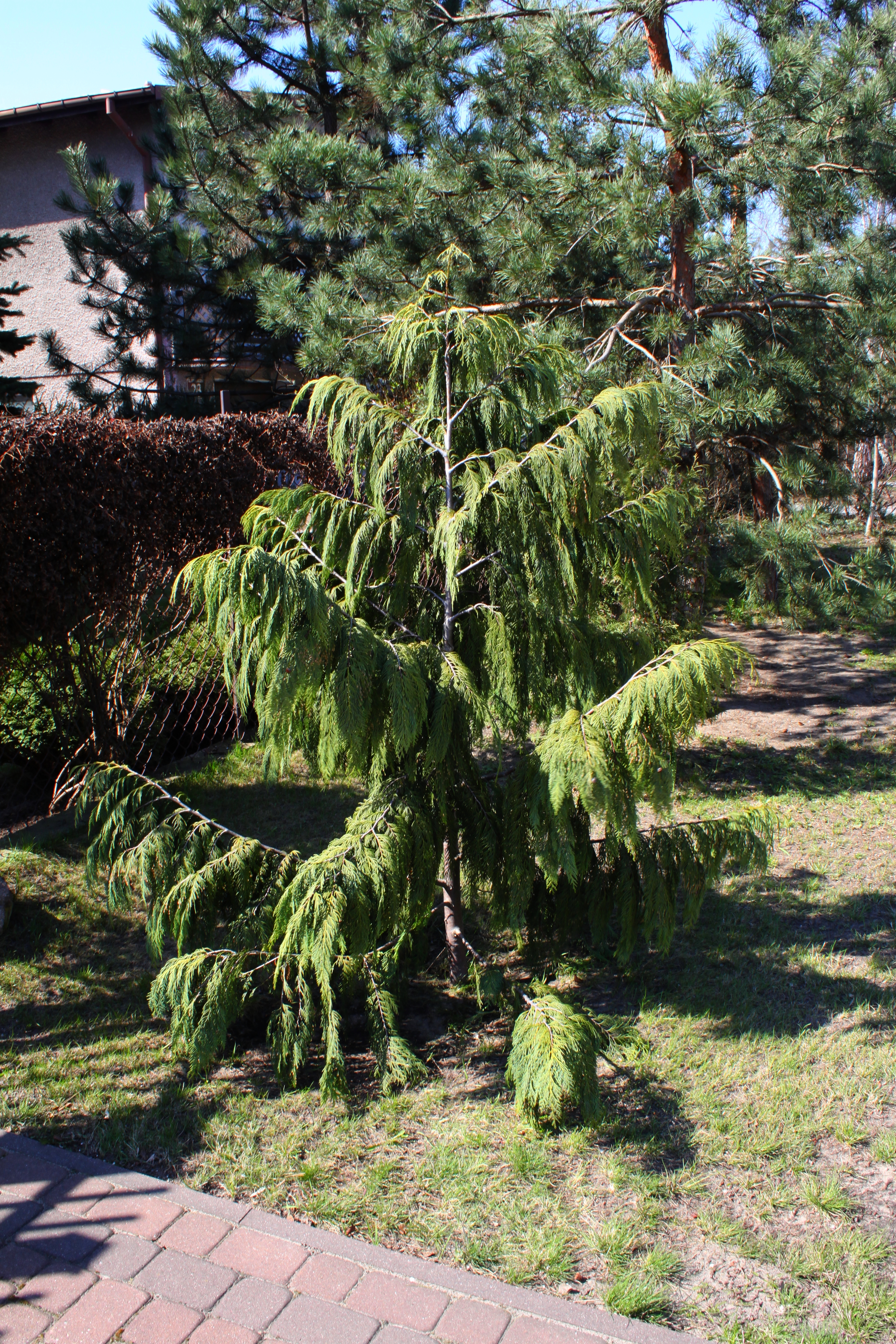 Young Callitropsis nootkatensis Pendula in Marki, Poland